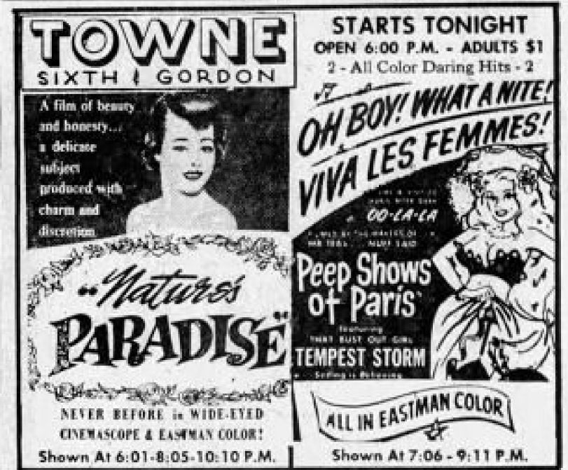 Towne Adult theater, American advertisement for the British film Nudist Paradise (1959) under its American title Nature's Paradise and Peep Shows of Paris (no title match in IMBd, but may be a retitle of Paris After Midnight (1951) with starred Tempest Storm) - 7 Jan. 1963 Morning Call, Allentown PA